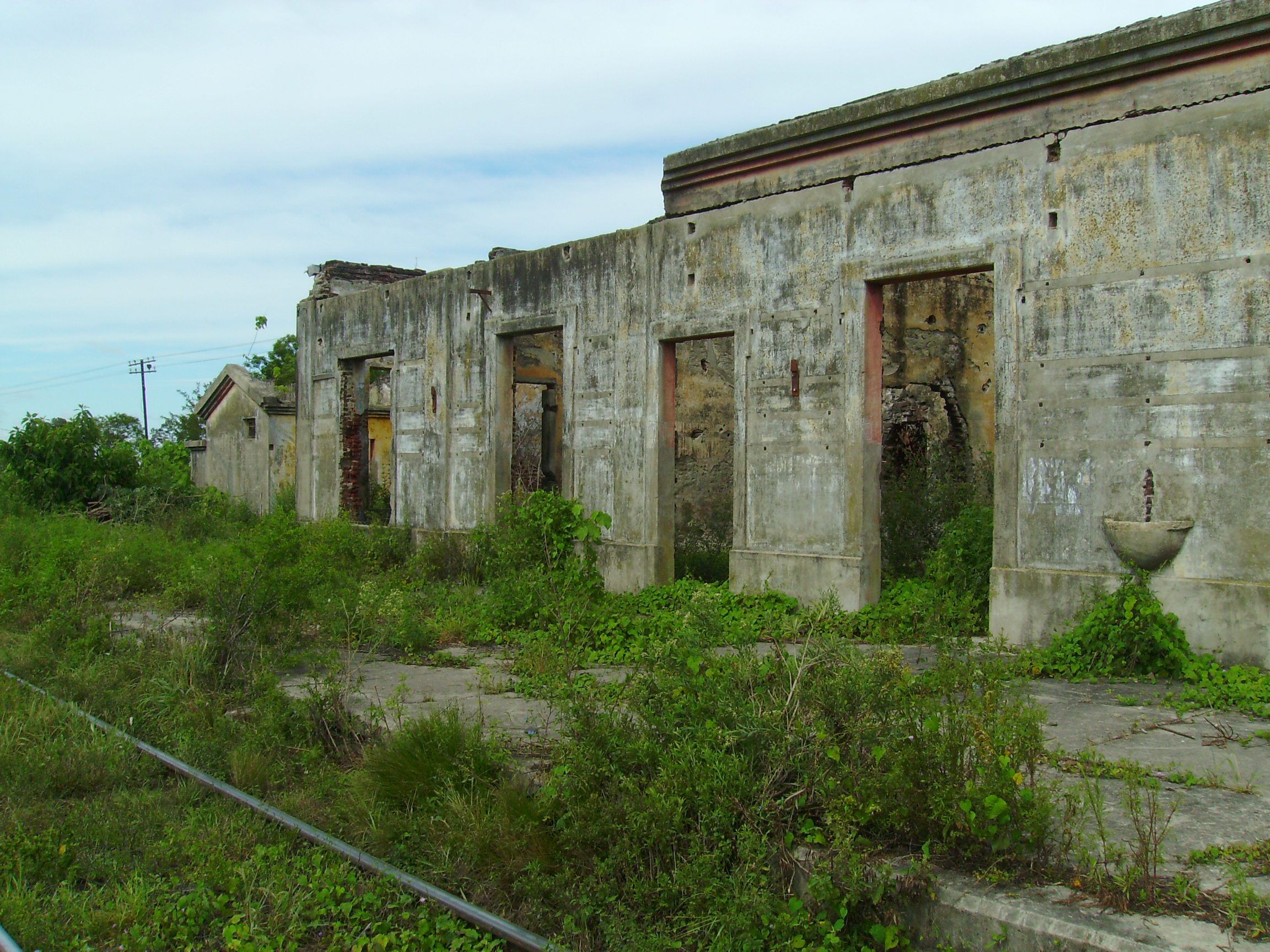 Escriña railway station